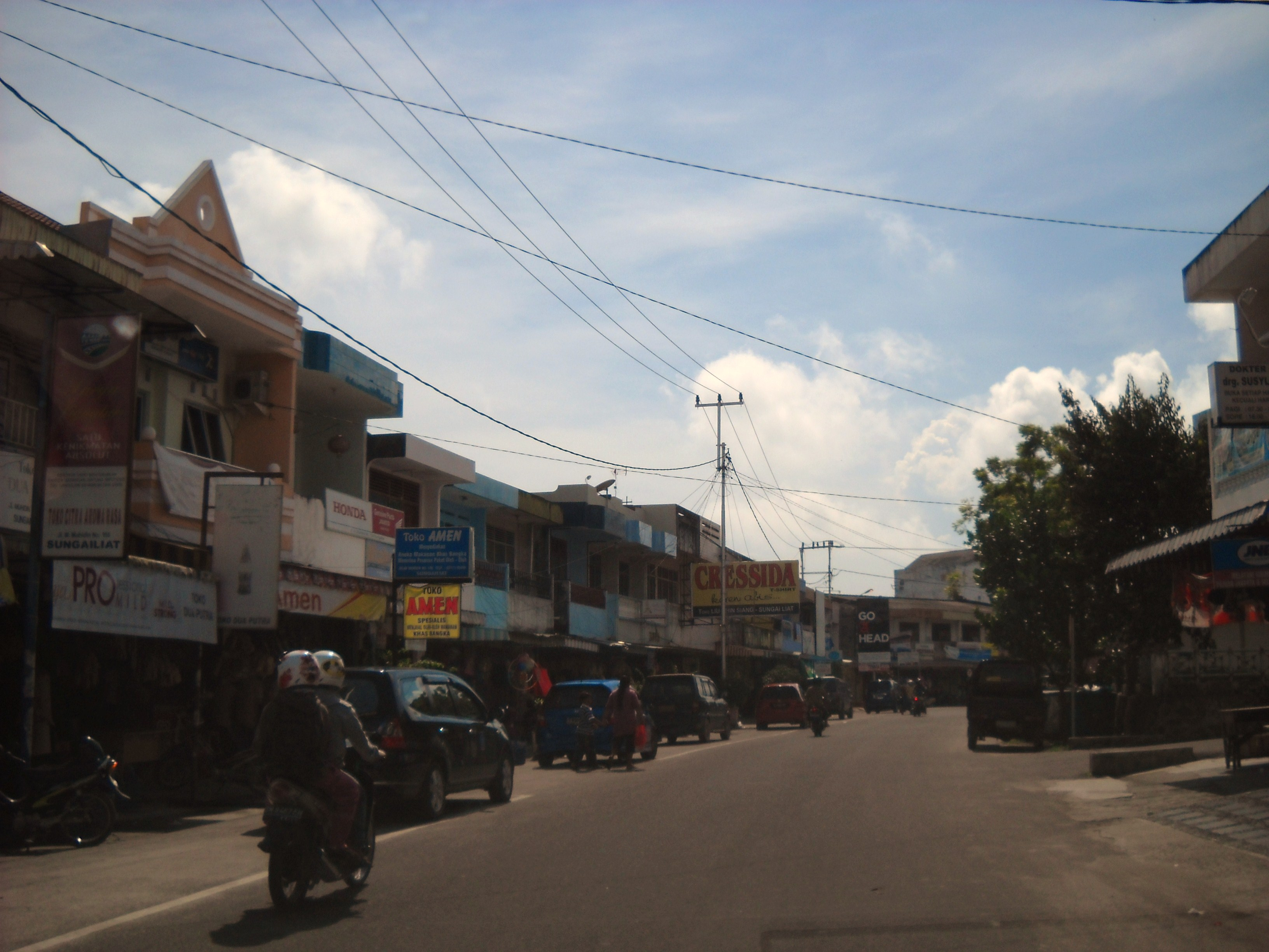 Muhidin Street, downtown Sungailiat, Bangka Island.